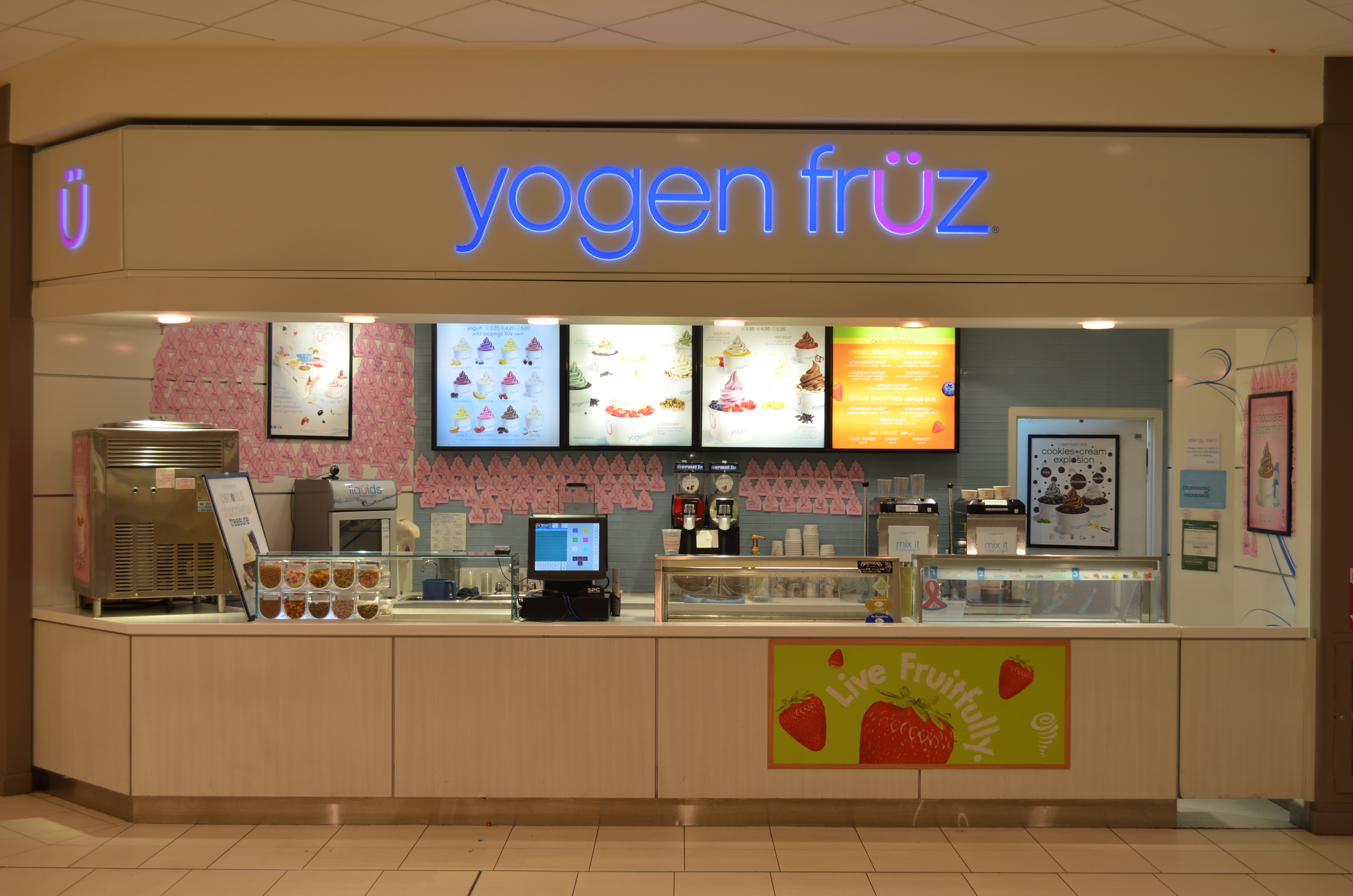 Yogen fruz at Promenade